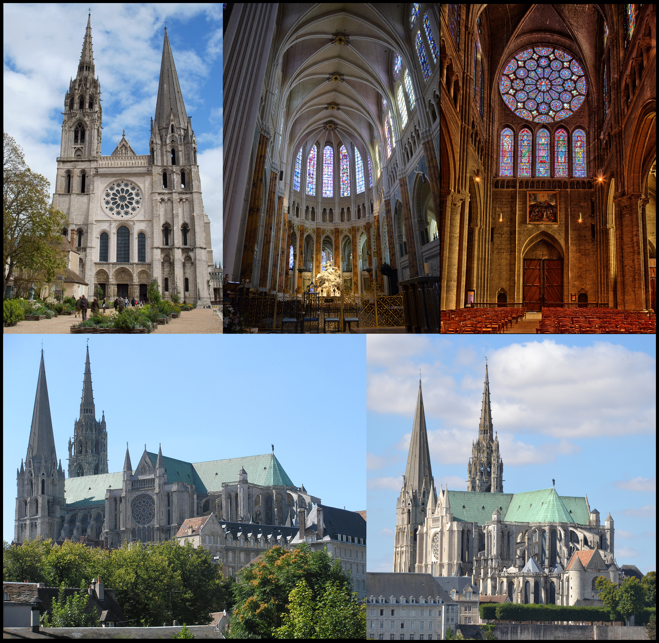 Cathédrale Notre-Dame de Chartres, High Gothic, Chartres, France